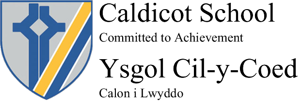 Caldicot School Crest